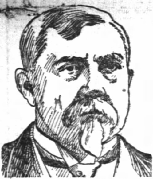 Charles T. Doxey (Indiana Congressman)